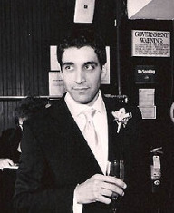 sayrafiezadeh author photo